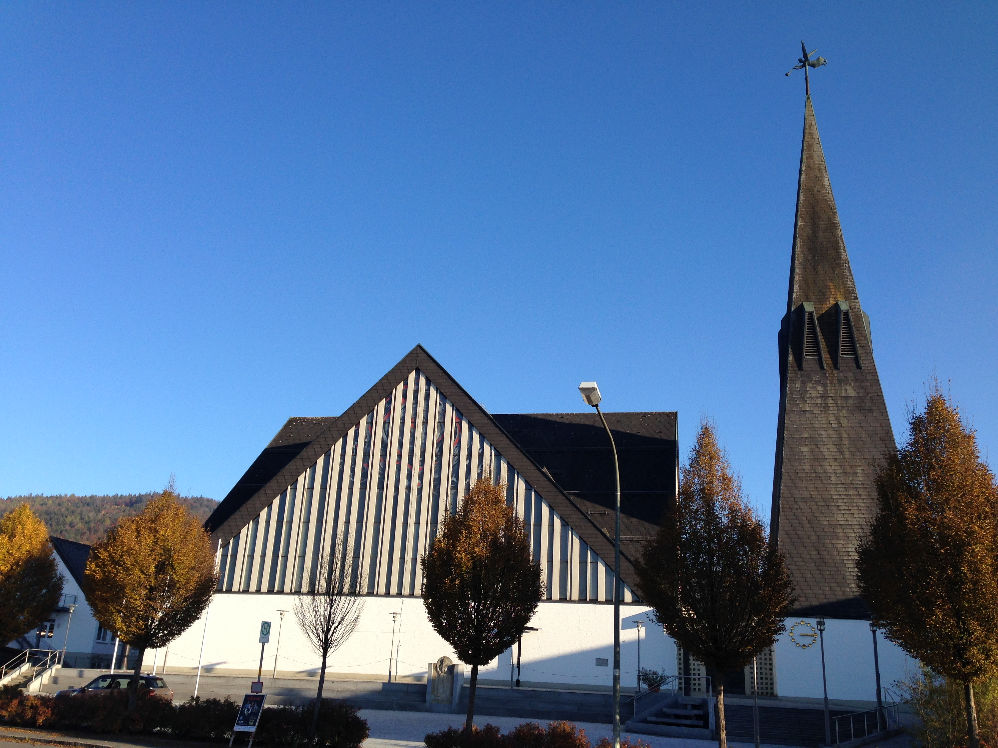 St. Bartholomew's Church in Geigant, view from Hauptstrasse